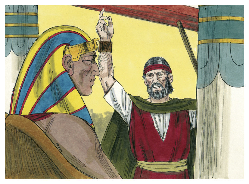 Biblical illustration of Book of Exodus Chapter 12